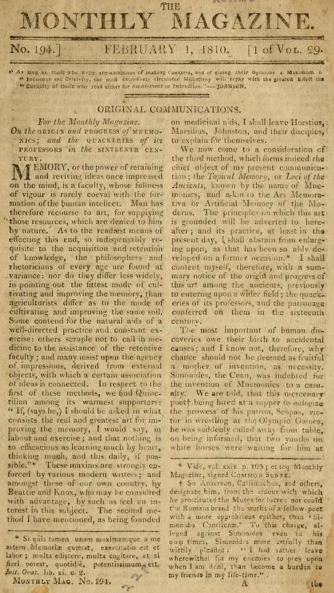 From: Monthly Magazine (London), Vol. 29, No. 194 (Feb. 1, 1810). John Adams Library copy, Boston Public Library